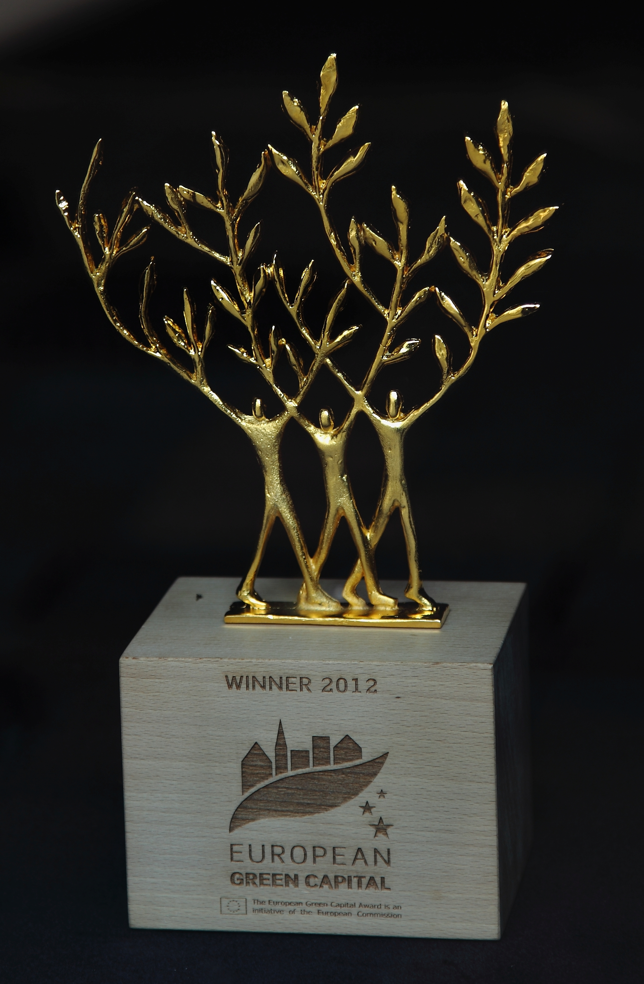 It is the prize given to the city